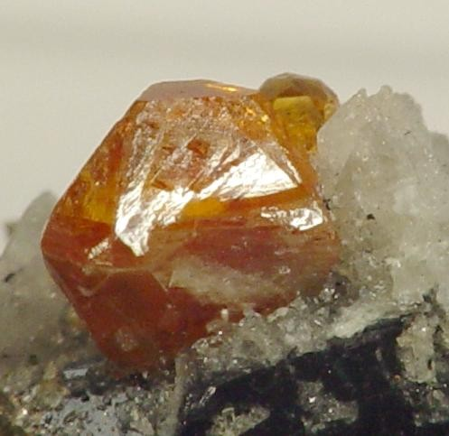 Quintinite-2H Locality: Jacupiranga Mine, Cajati, São Paulo, Southeast Region, Brazil (Locality at ) Size: 0.8 x 0.5 x 0.4 cm. A superb 2mm crystal from the co-Type Locality. This hexagonal crystal is a brilliant yellow-orange in color, and its excellent vitreous luster is practically iridescent. A superb example of a very rare mineral species in crystalline form, and gemmy as well. This is one of the rarest of crystallized CARBONATES, and a complex one. This locality produced not only crystals, but certainly the best for form and beauty. Ex. Charlie Key. He got it from Carlos Barbosa before he passed away.